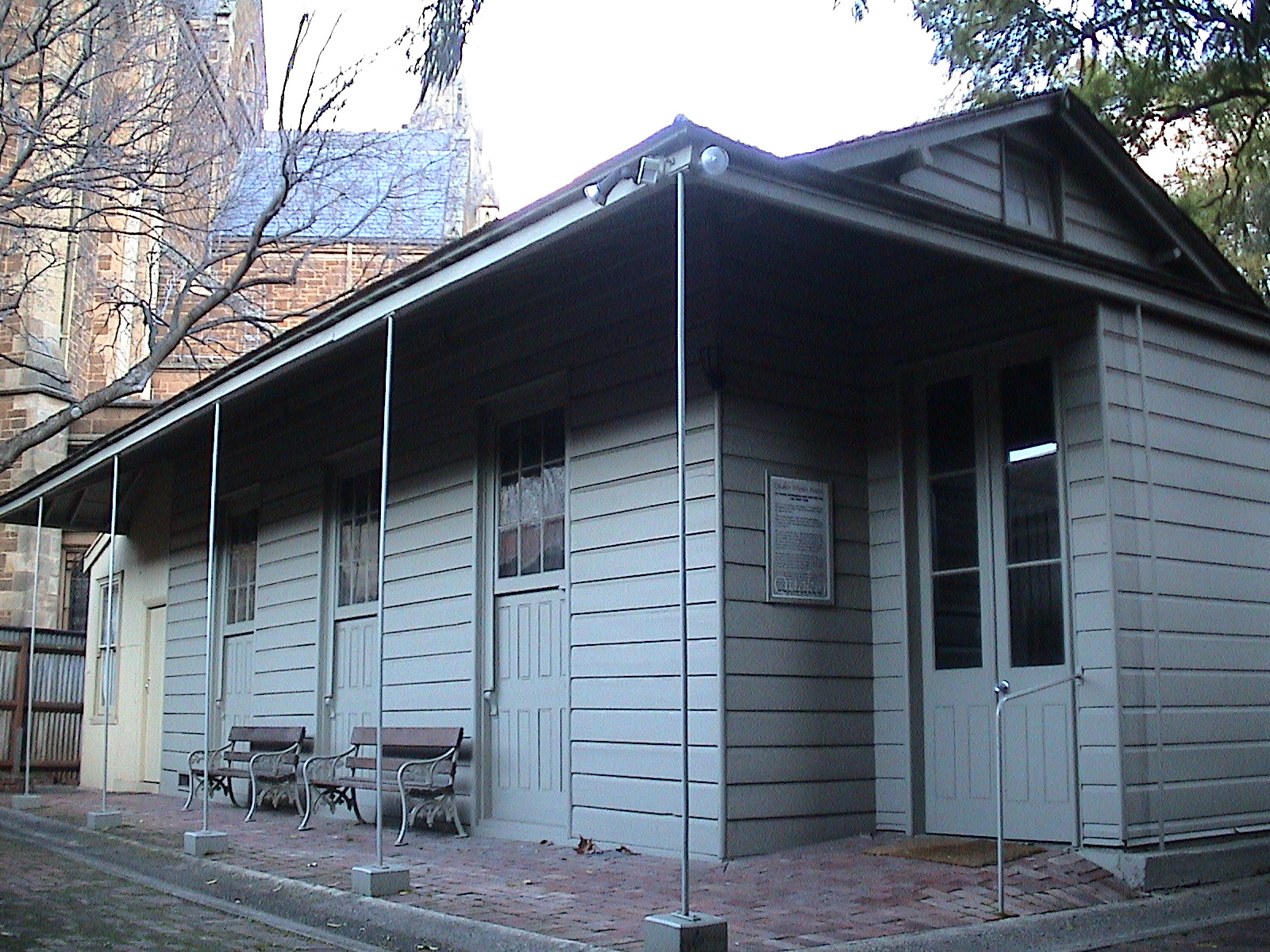 The Friends Meeting House, Adelaide, c.1840, predates the adjacent St Peters Cathedral